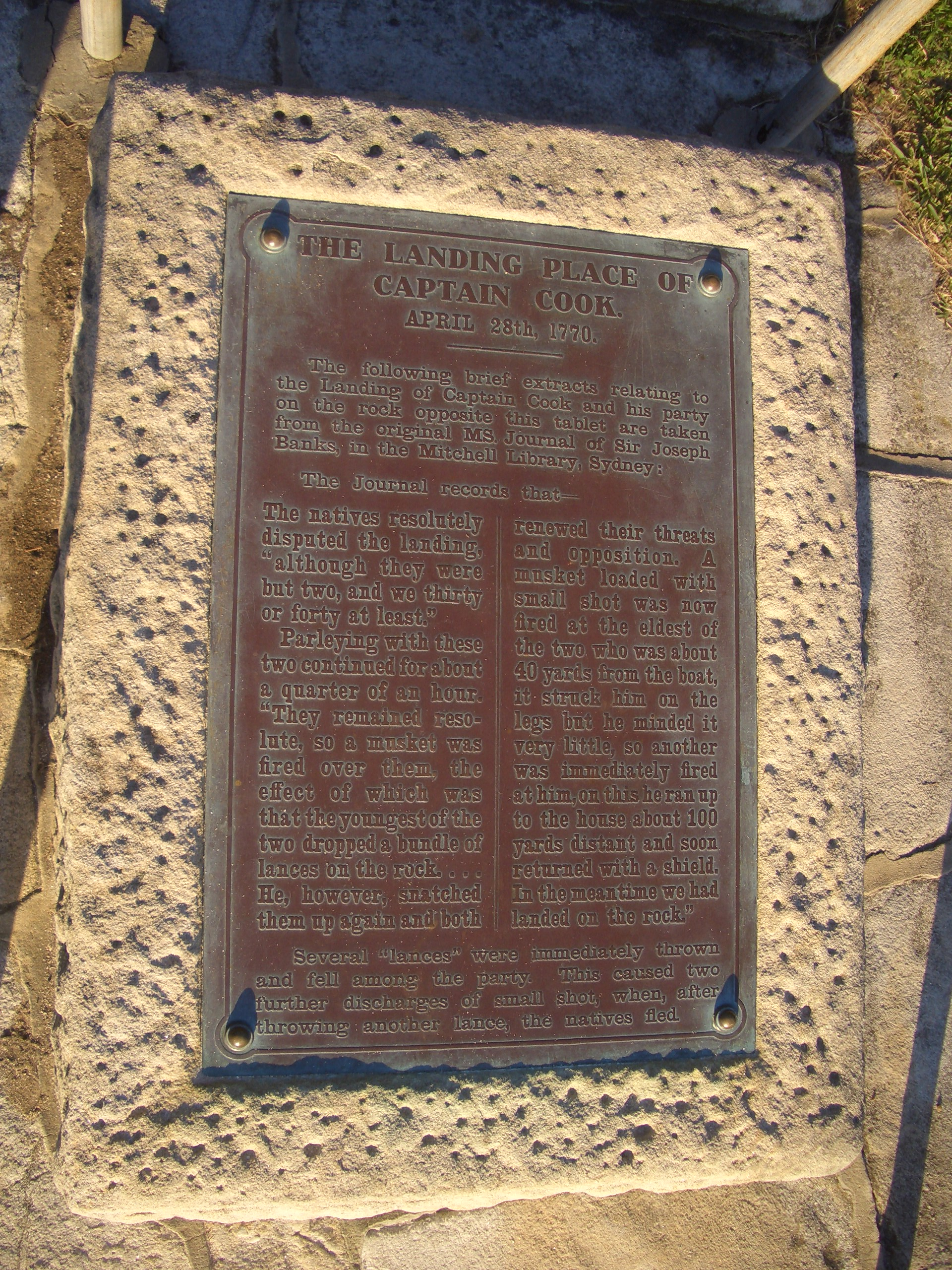 Kurnell_Cook_Landing plaque